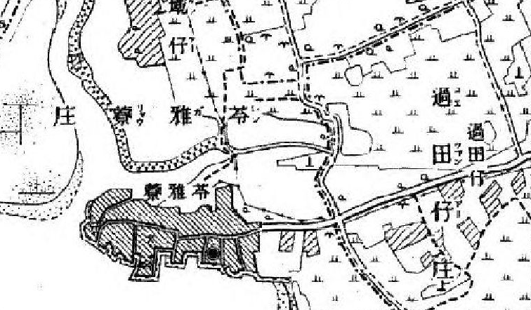 Lingyaliao_and_Guotianzih_(1904_Taiwan_Baotu)